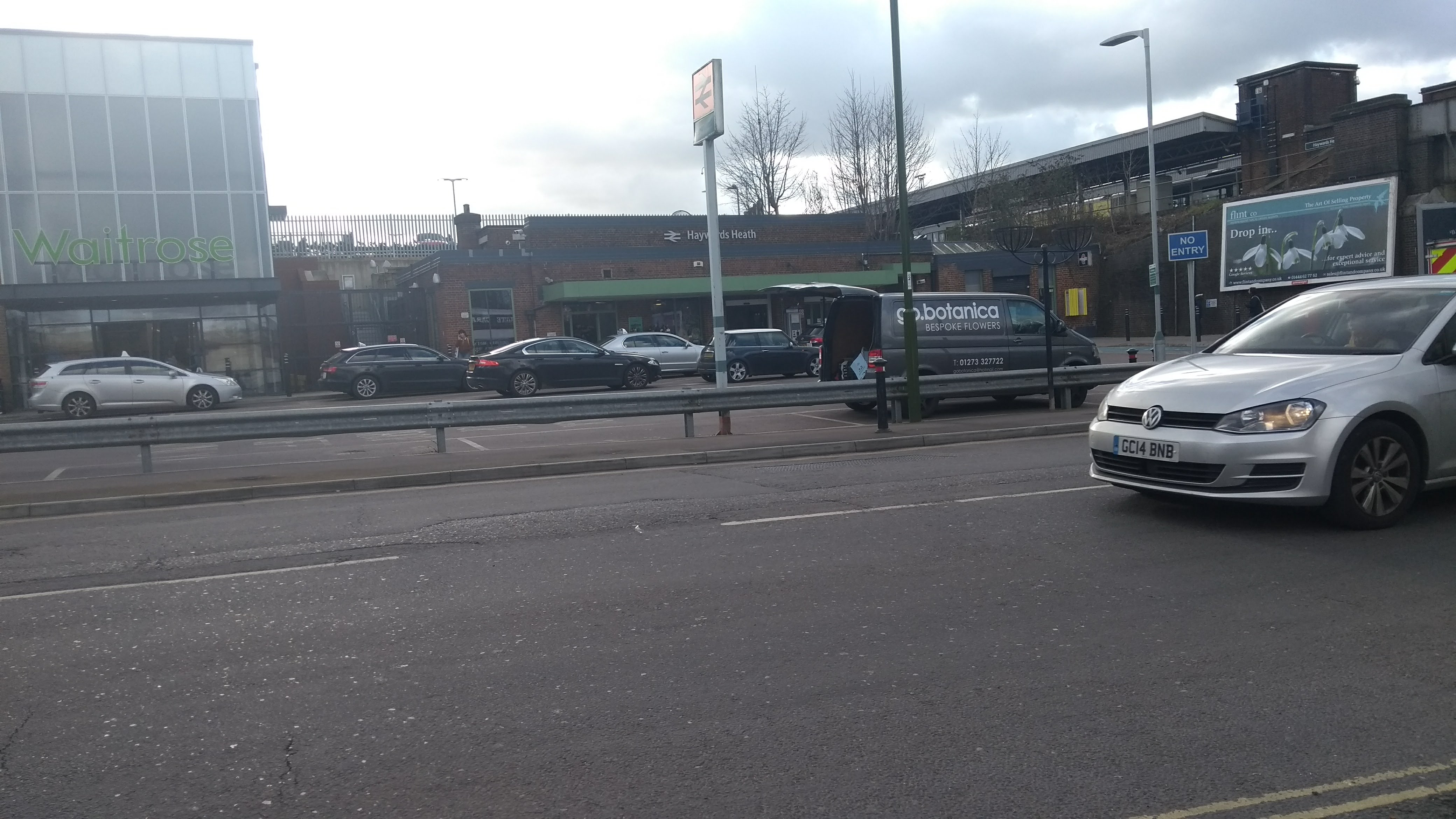 Haywards Heath Railway Station Main Entrance in Early 2018 - Taken to update 12 year old photo